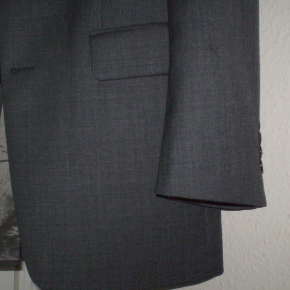 A picture illustrating a flap pocket on a grey lounge suit jacket